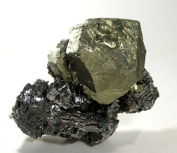 Chalcopyrite, Arsenopyrite Locality: Panasqueira, Covilhã, Castelo Branco District, Portugal (Locality at ) A single very sharp, very equant, very well-formed crystal perched nicely on contrasting silvery arsenopyrite! This is an exceptionally aesthetic and well-balanced chalco specimen for the locality 8.9 x 6.6 x 3.2 cm